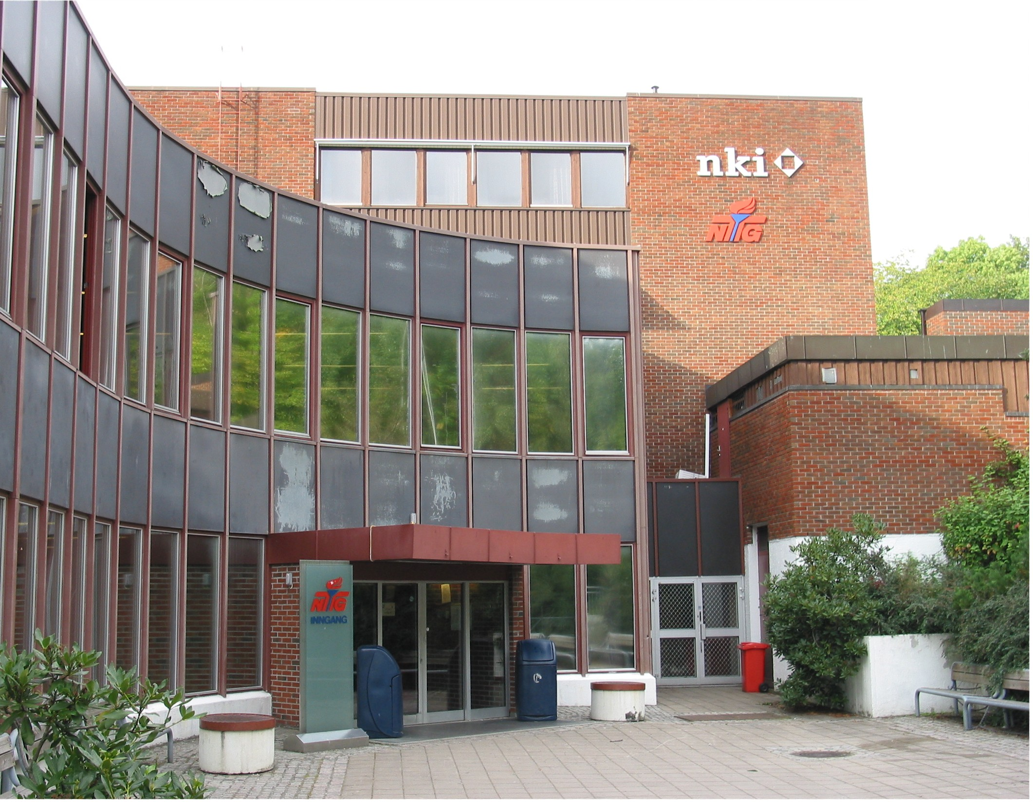 The co-localized schools Norges Toppidrettsgymnas (NTG) and NKI Nettstudier at Nadderud, Bærum, Norway.